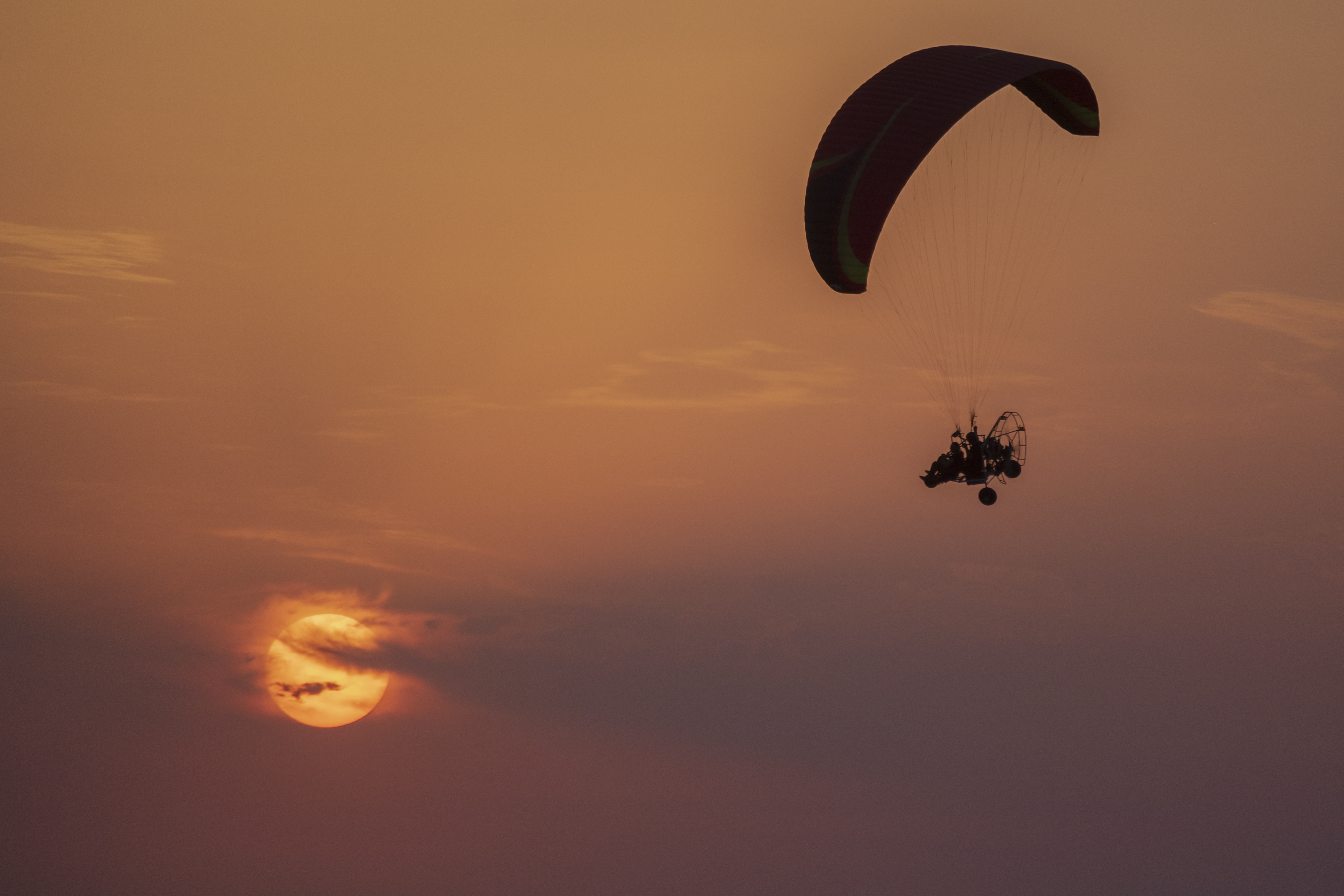 Sorkhrud is a city and capital of Sorkhrud District, in Mahmudabad County, Mazandaran Province, Iran. At the 2006 census, its population was 6,569, in 1,841 families.